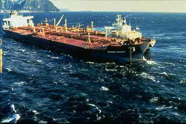 Shortly after leaving the Port of Valdez, the Exxon Valdez ran aground on Bligh Reef. The picture below was taken 3 days after the vessel grounded, just before a storm arrived.